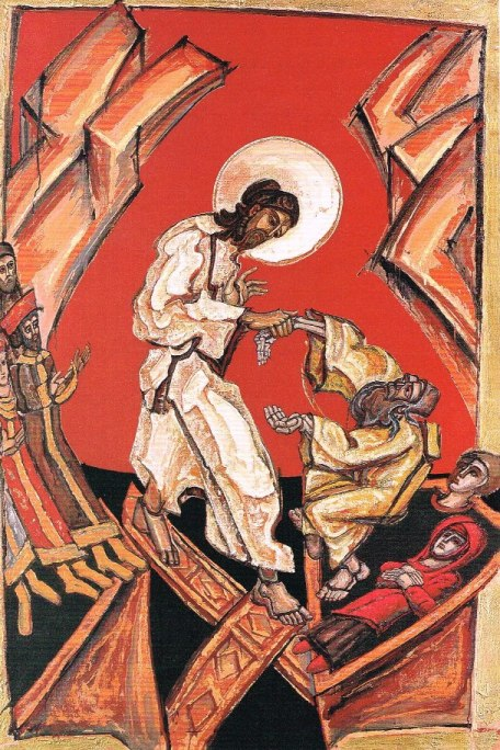 Alek Rapoport. Anastasis-1, 1996. Mixed media on burlap, 72 x 48”. Private collection, USA.